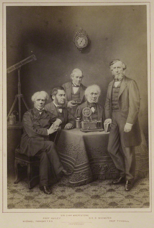 Photograph of (left to right): Michael Faraday, Thomas Henry Huxley, Charles Wheatstone, David Brewster, John Tyndall